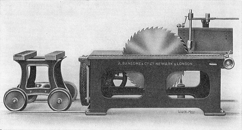 Fig. 26 'Ransome's Self-acting Saw-bench' Circular saw ripping sawbench. Described as a "self-acting" sawbench, as the chain drum winds forward under power and hauls the log forward with it. The carriage is used for initial conversion of logs. When sawing deals or battens, they are carried by the table of the saw and the small pressure roller visible to the right of the blade is used to control them. Note the lack of splitter, not unusual for this period.